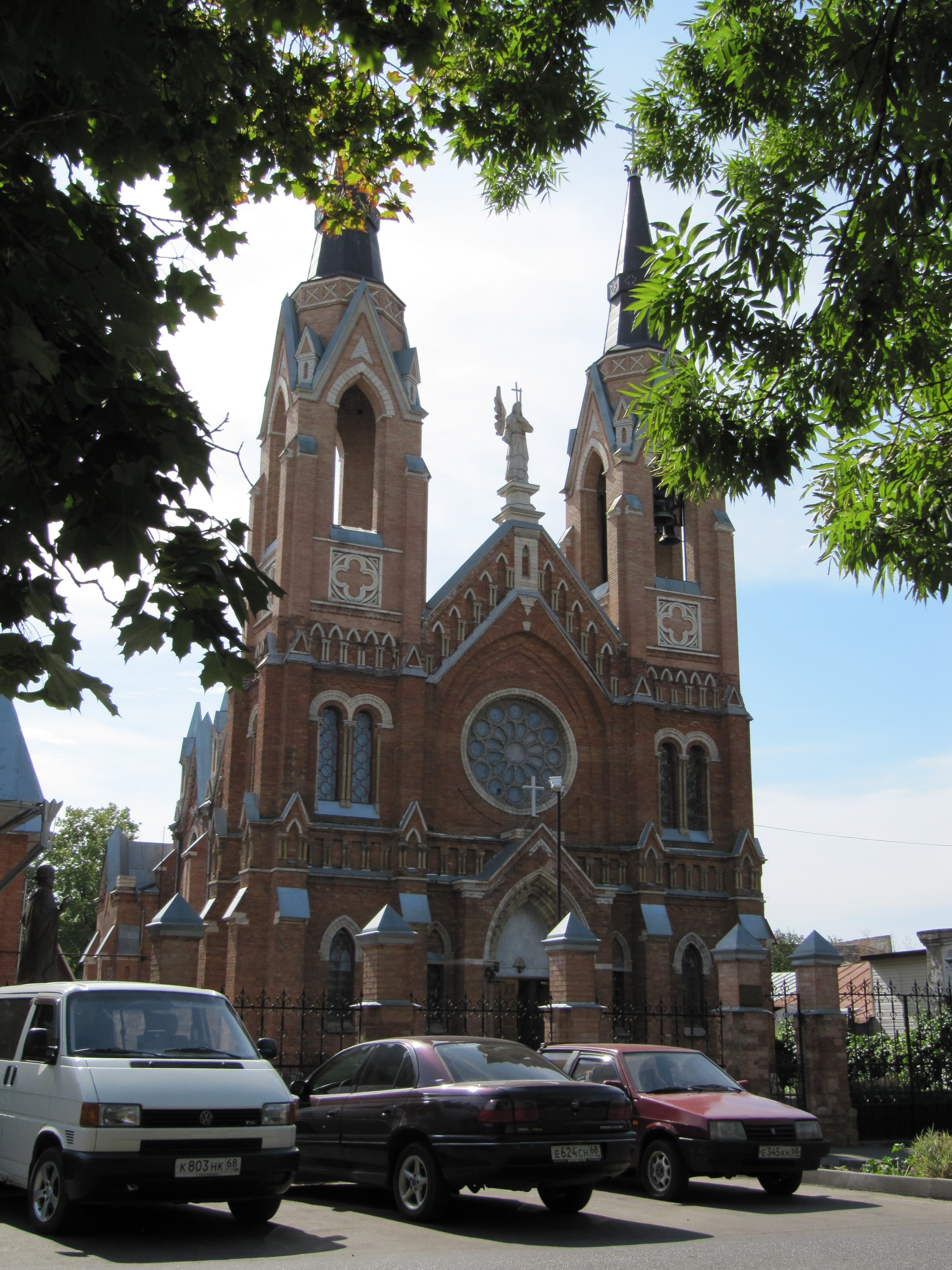 Exaltation of the Holy Cross church in Tambov, Russia